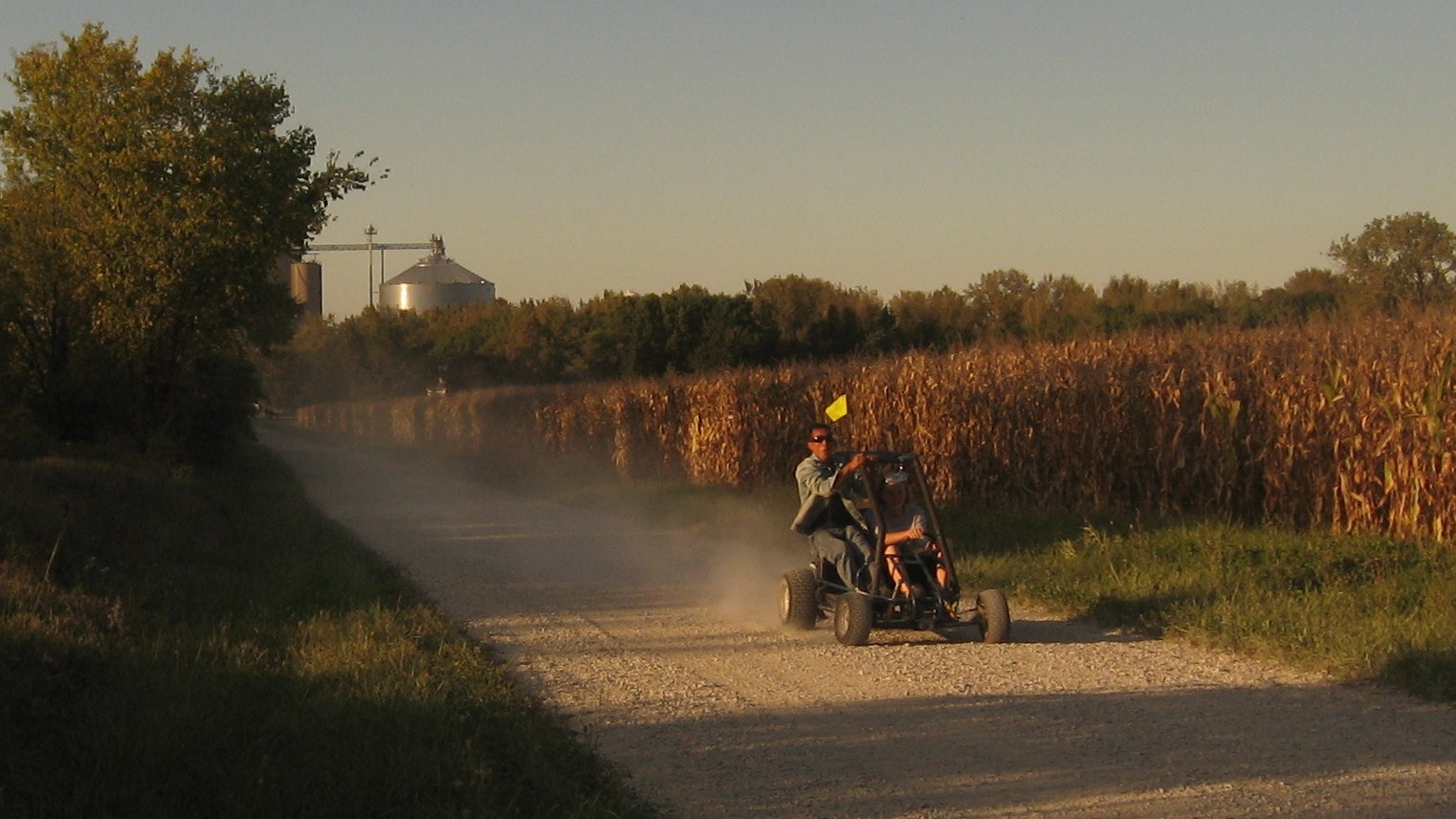 Own work. Samuel Beals.